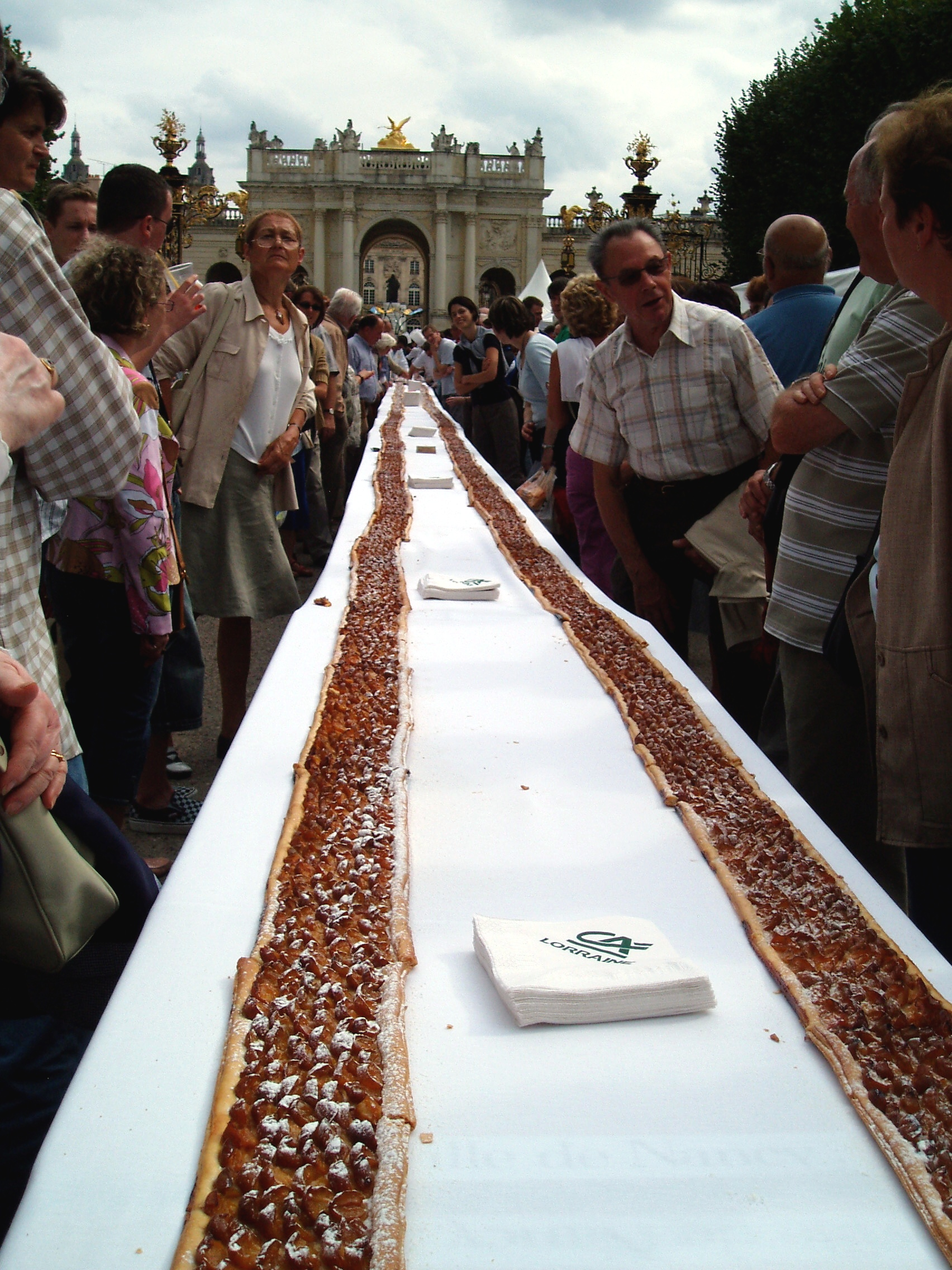 Longest tarte aux mirabelles in the world